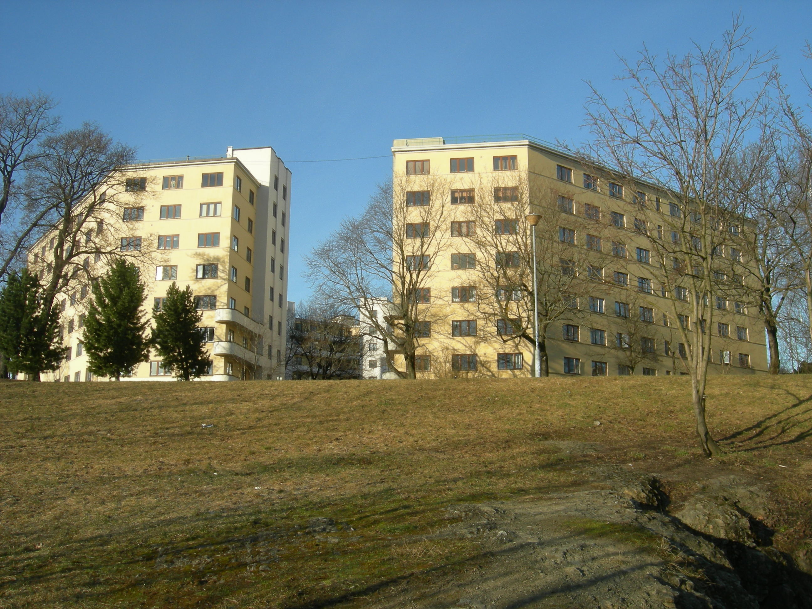 Functionalist blocks, 1930-39, Oslo, Norway